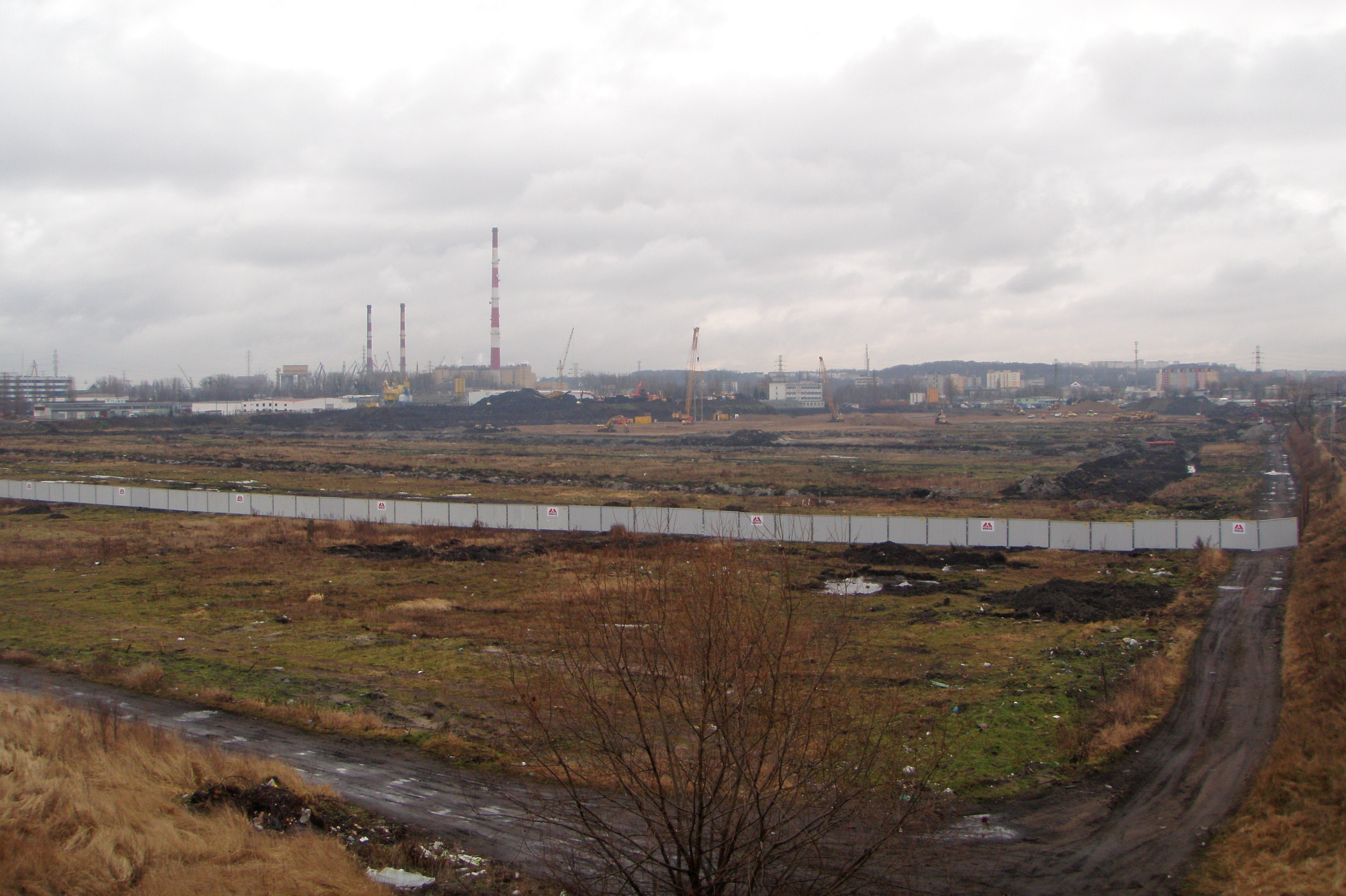 The football stadium in Gdańsk Letnica (Poland) under construction, January 2009.